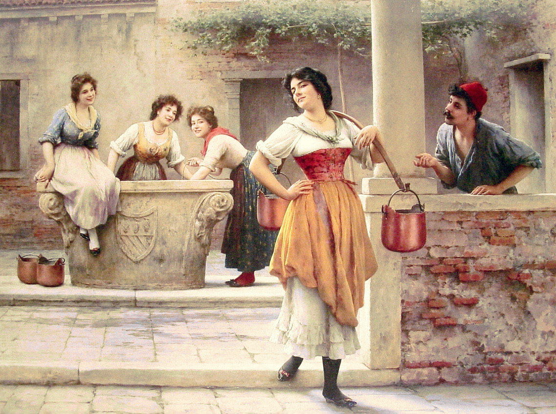 Courtship scene among an idealized peasantry. A young man is forward in addressing a young woman, who displays a somewhat affected coyness, while other women at the well in the background are amused.